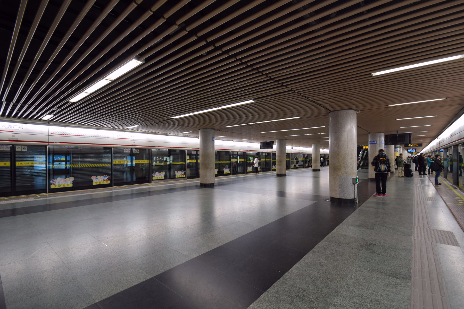 Line 1 Platform of People's Square Station after renovation, Shanghai Metro